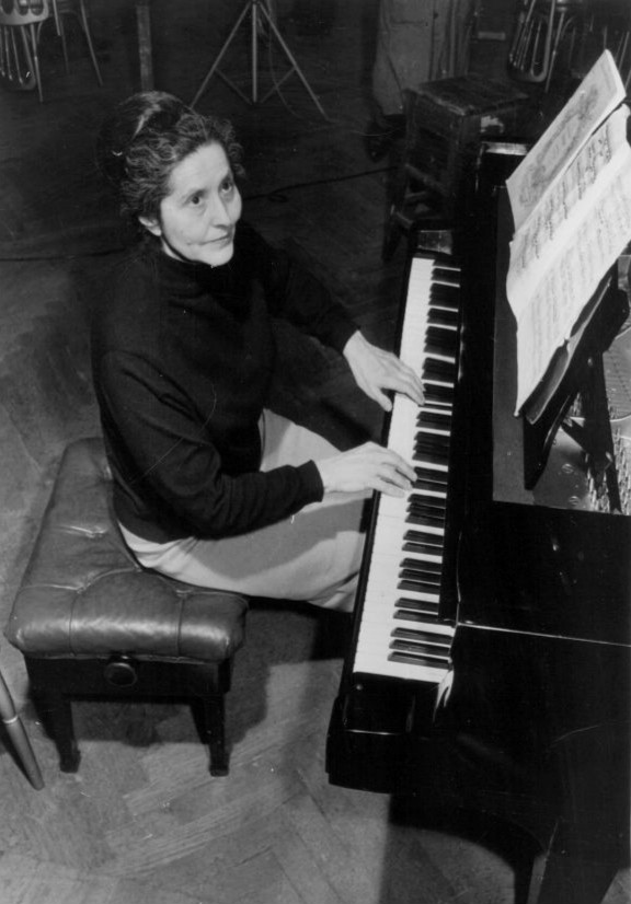 Photo of pianist Lili Kraus.